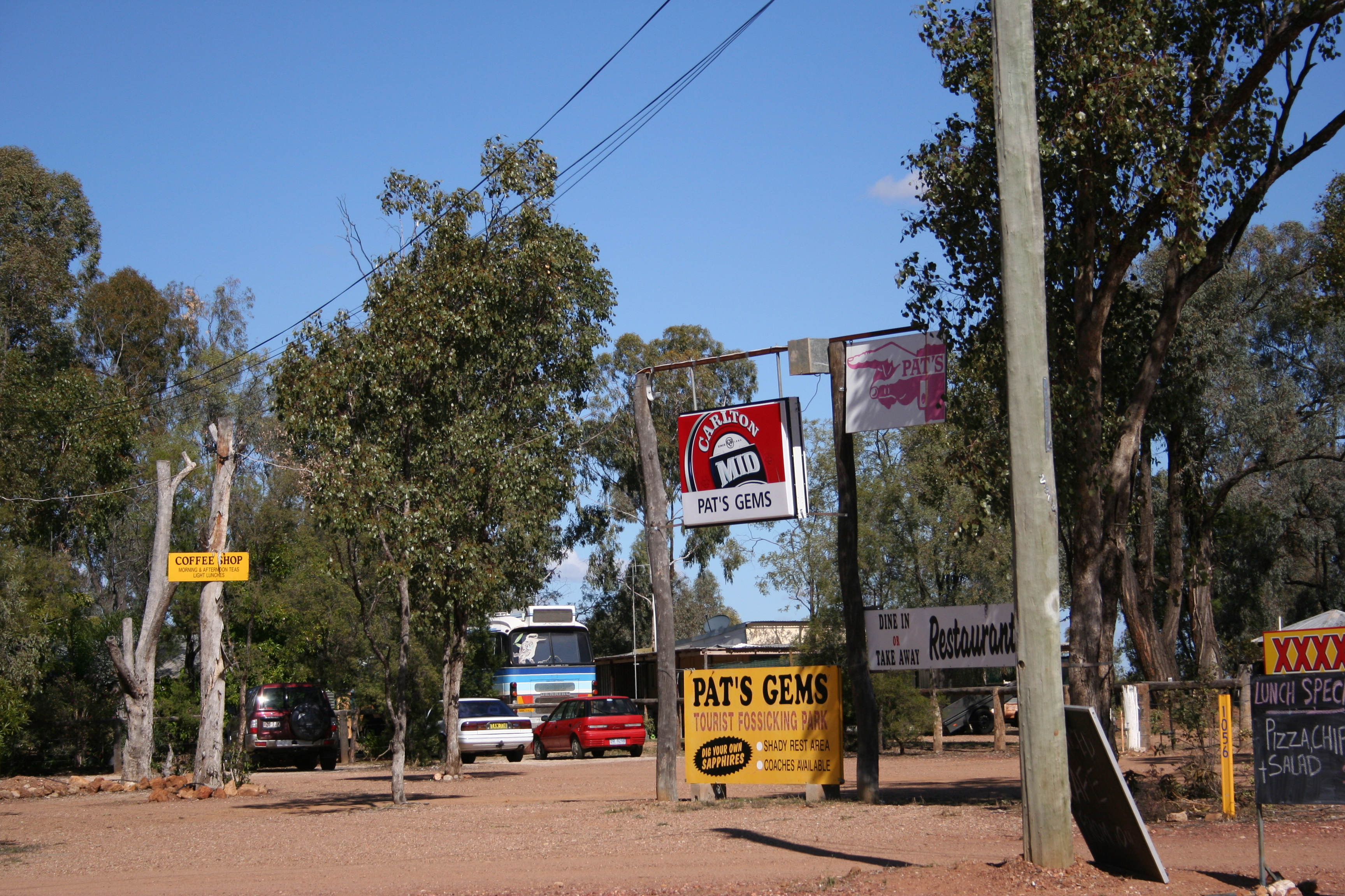 Pat's Gems, Rubyvale, outback Queensland, Australia